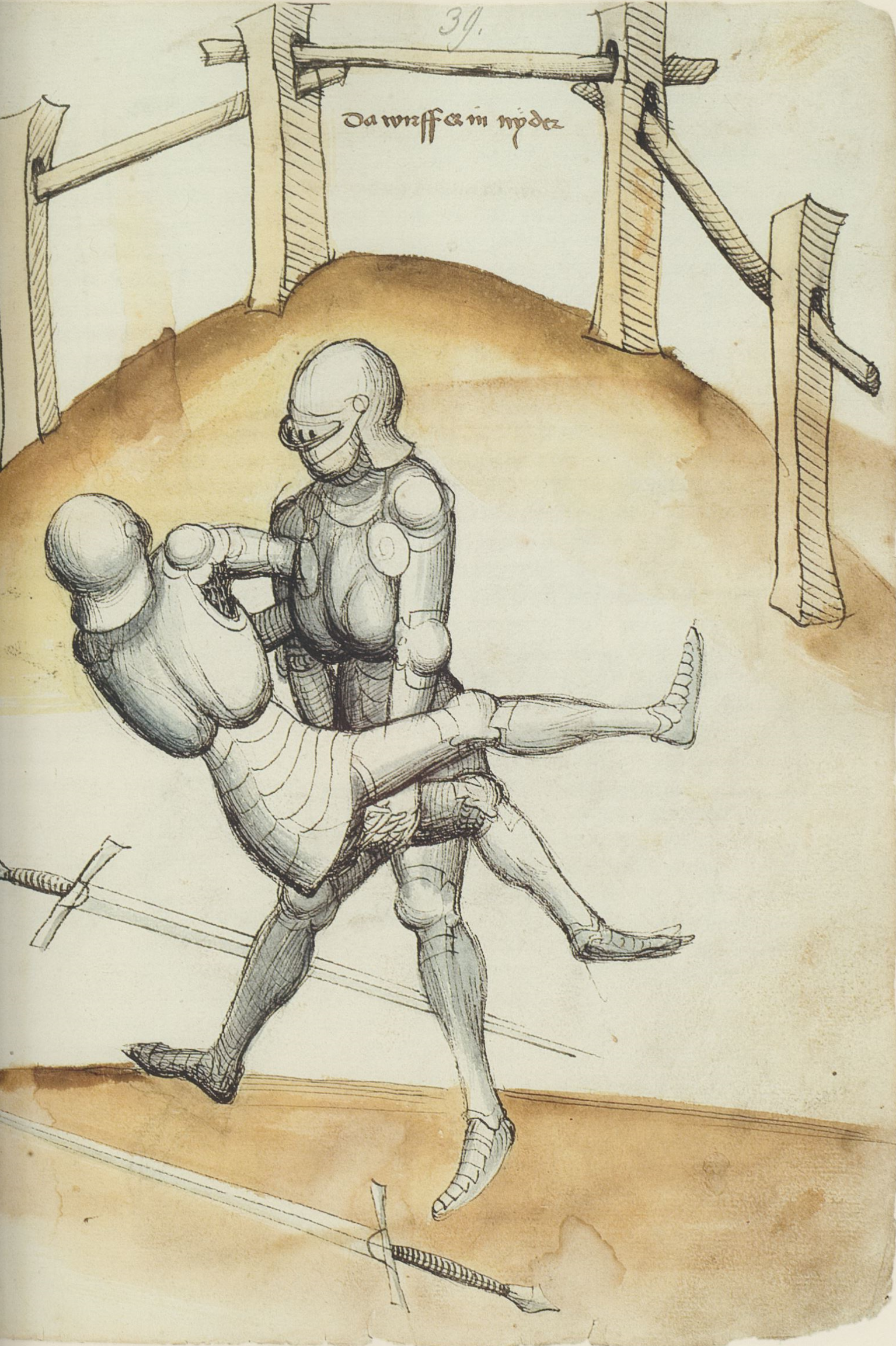 The Ms.XIX.17-3 is a German fencing manual created by Hans Talhoffer some time between 1446 and the creation of the Thott manuscript in 1459. The original currently rests in the private collection of the Königsegg-Aulendorf family in Königseggwald, Germany. This manuscript may possibly have been commissioned by the very Luithold von Königsegg who is featured in several of Talhoffer's works.